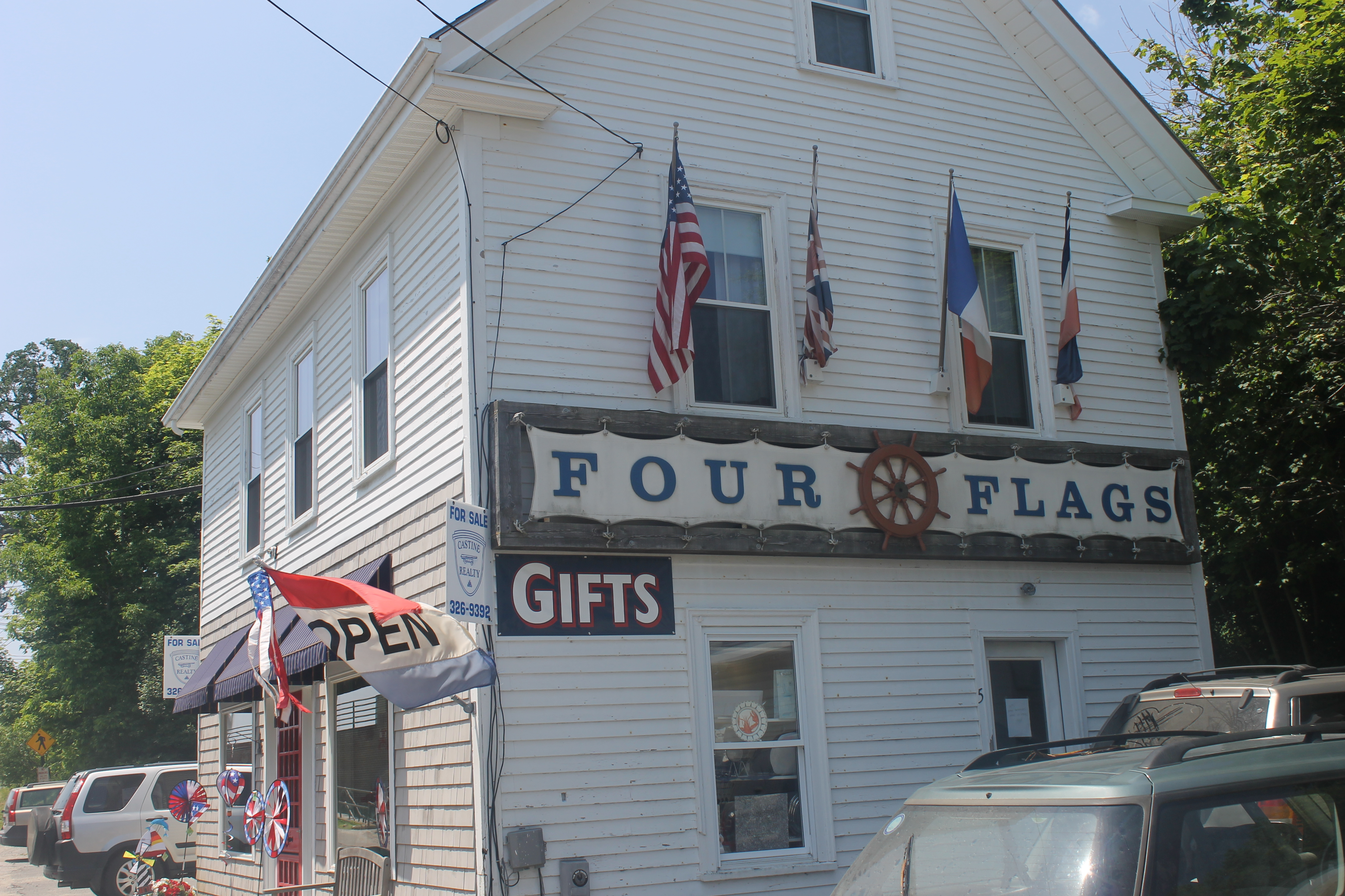 I took photo of Four Flags antique shop in Castine, ME, with Canon camera.